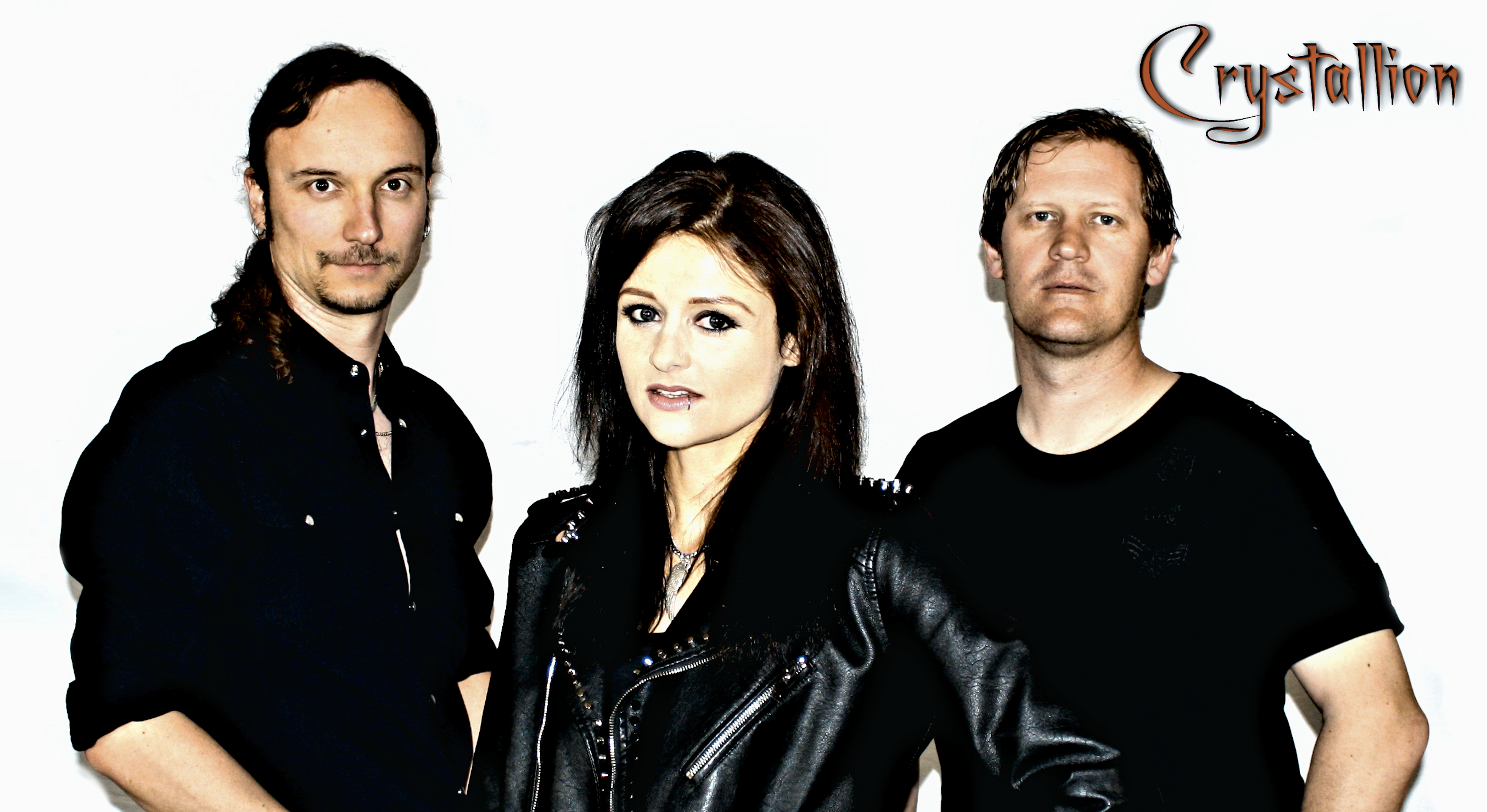 Crystallion 2019